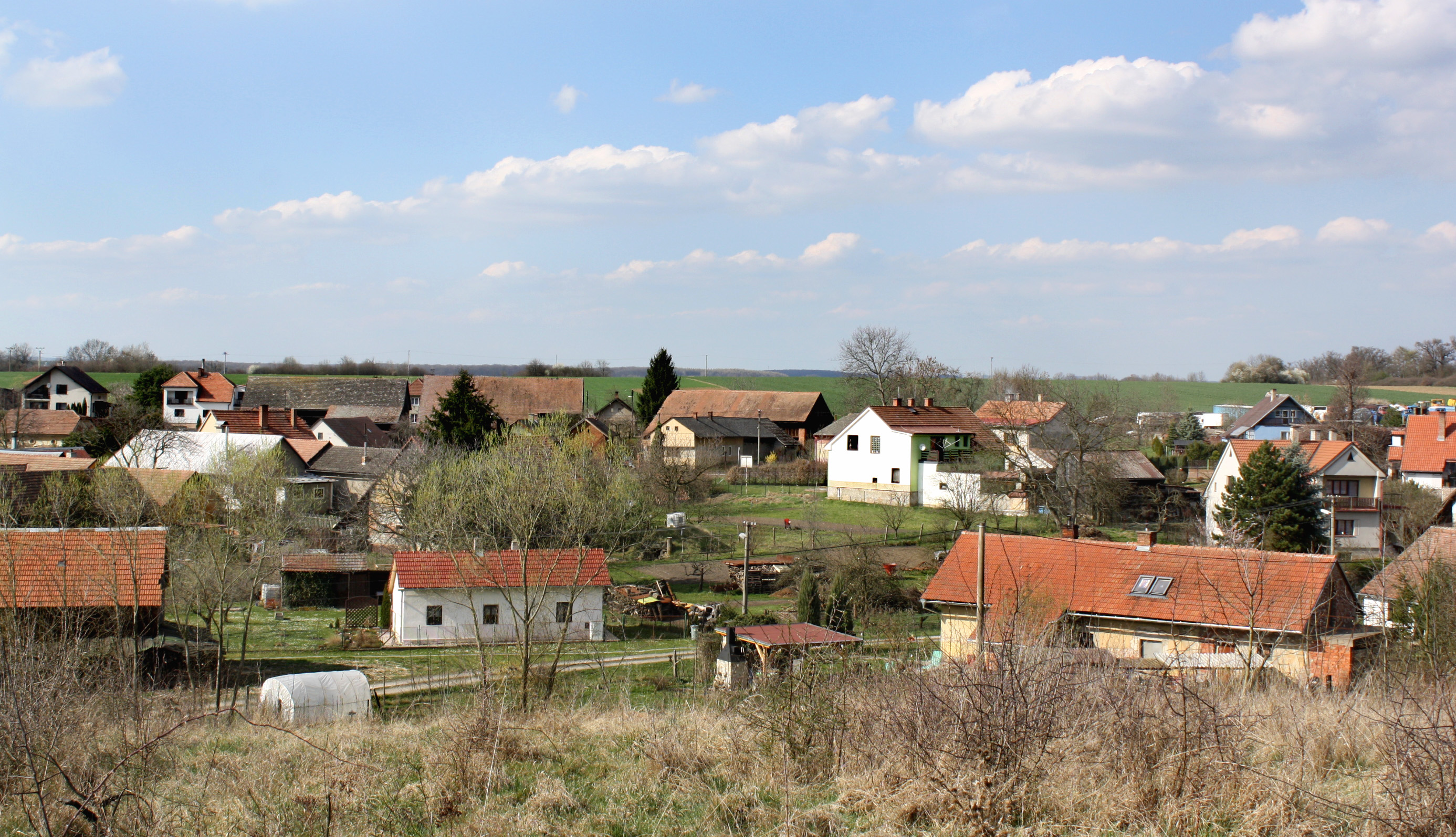 East view to Cholenice village, Czech Republic